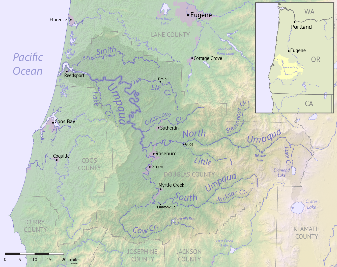 Map of the Umpqua River watershed, Oregon, United States, made using USGS National Map data. Intended to replace earlier File:Umpquarivermap.jpg